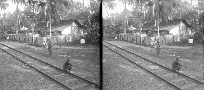 Railwaystation stopplace in Banjumas, Java